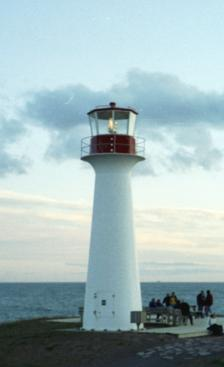 A lighthouse on the Magdalen Islands.